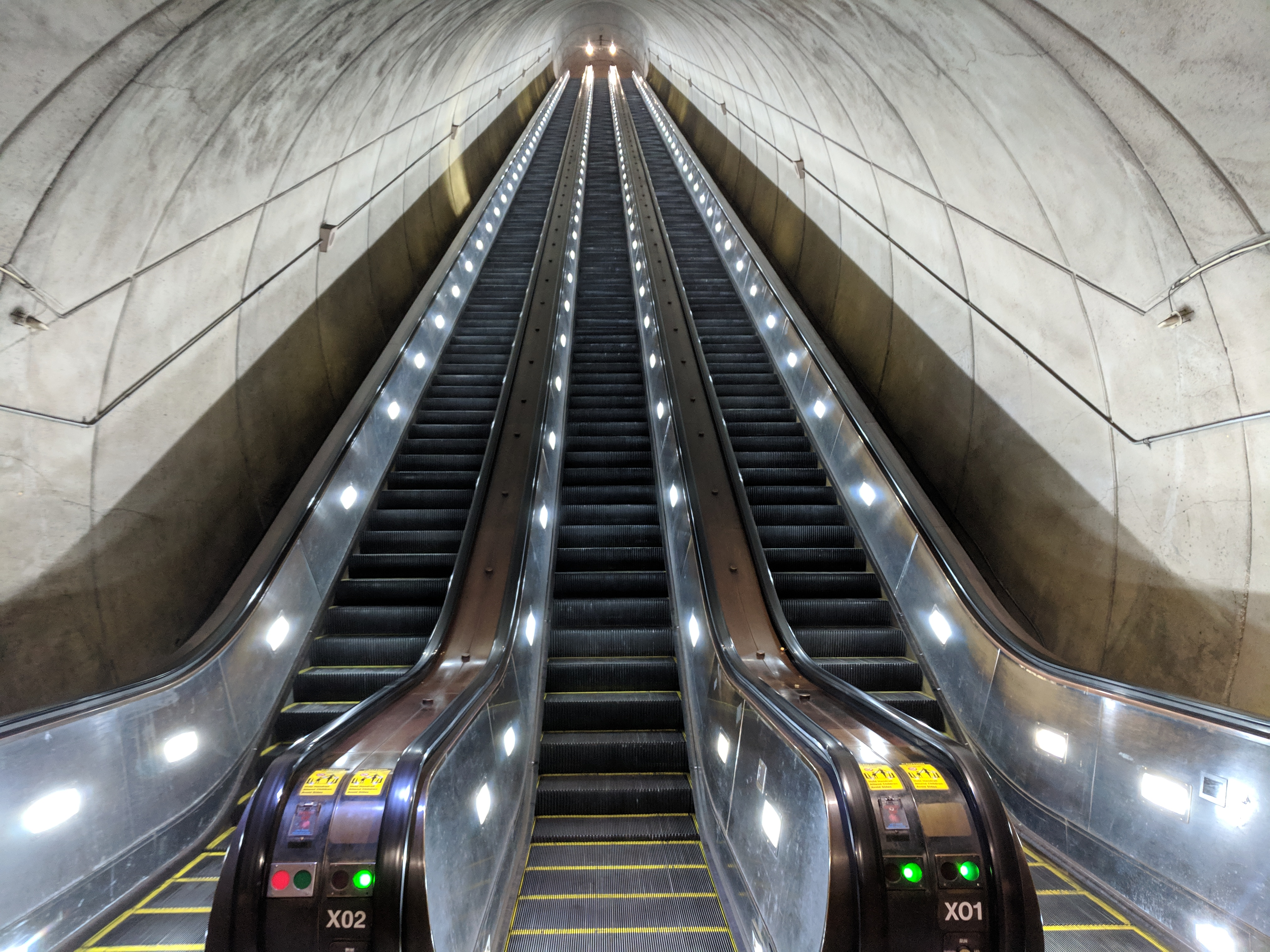 Escalator at Wheaton Metro station.